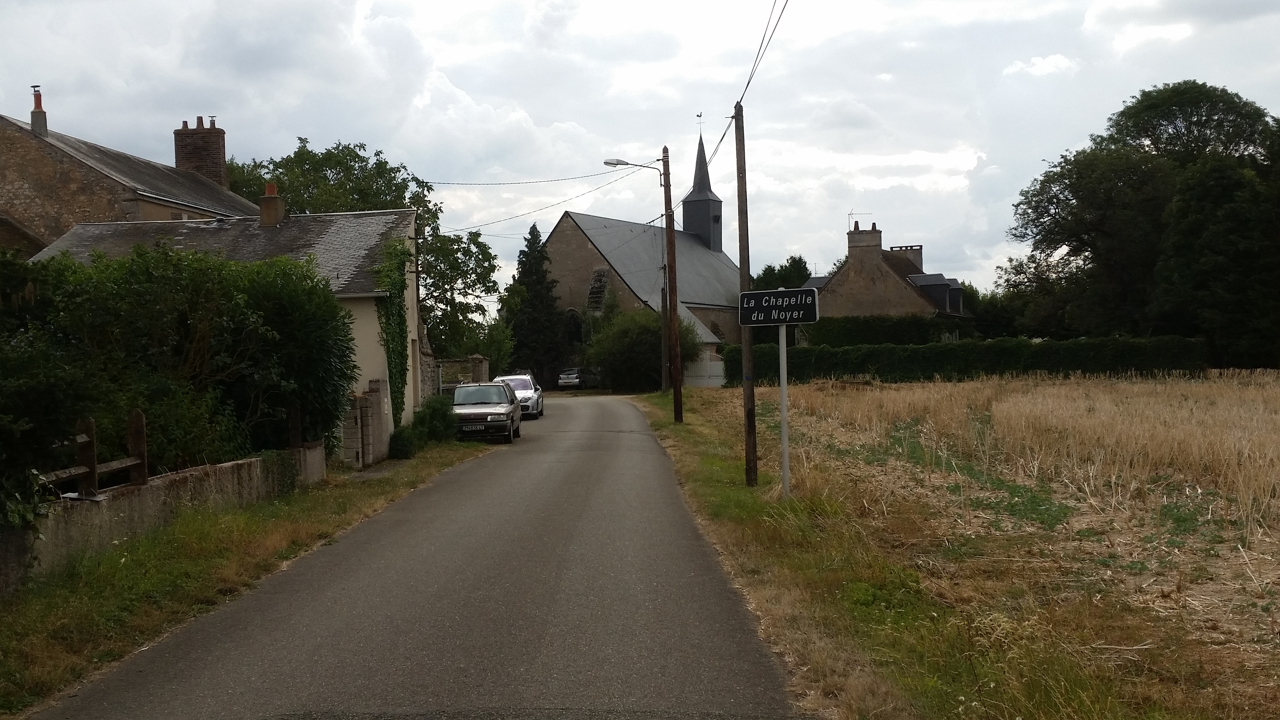 The entrance of La Chapelle-du-Noyer and the church (Eure-et-Loir, France).